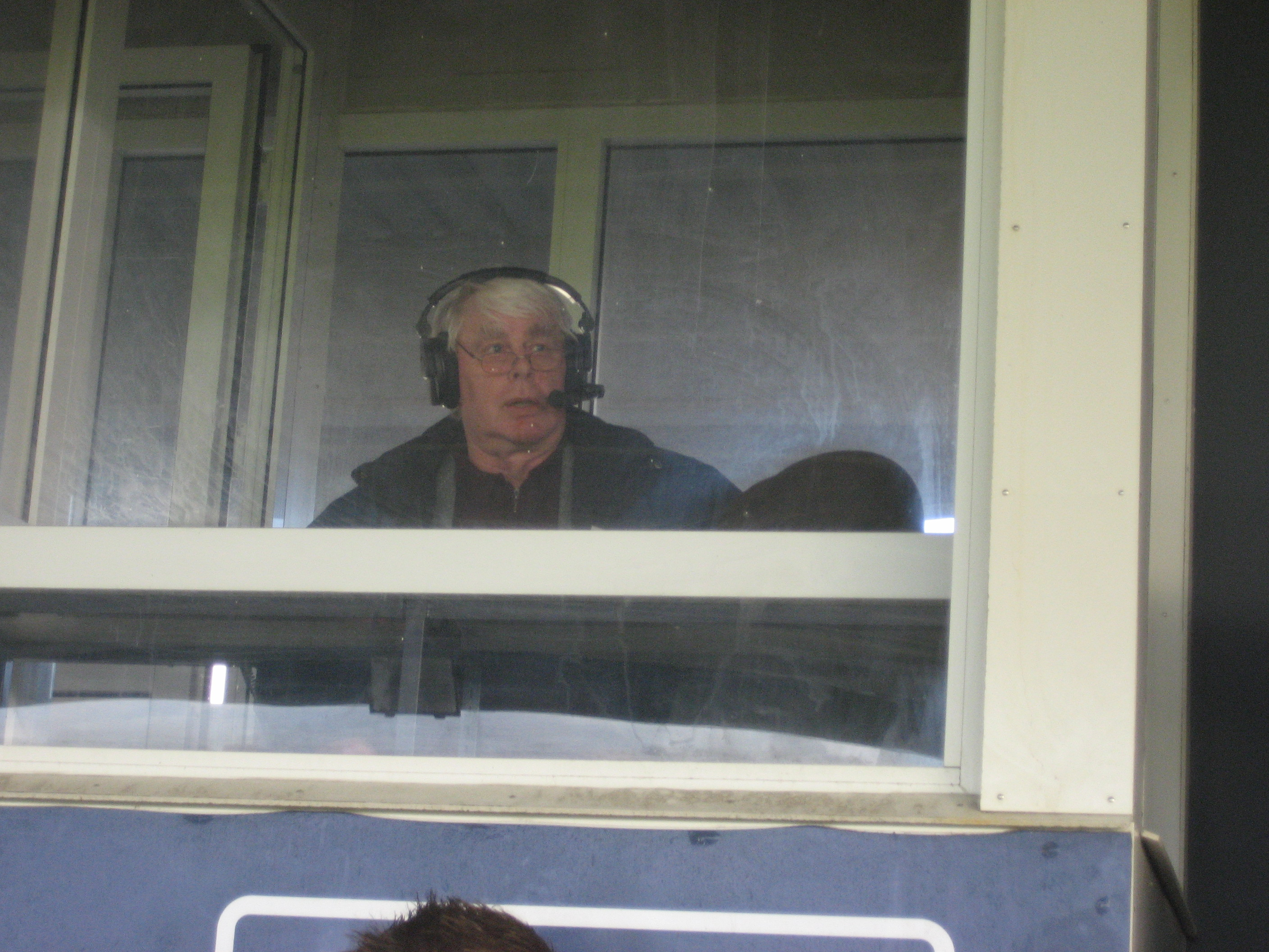 Bjarni Felixson, a sports reporter in Iceland, and an old KR REykjavík player.